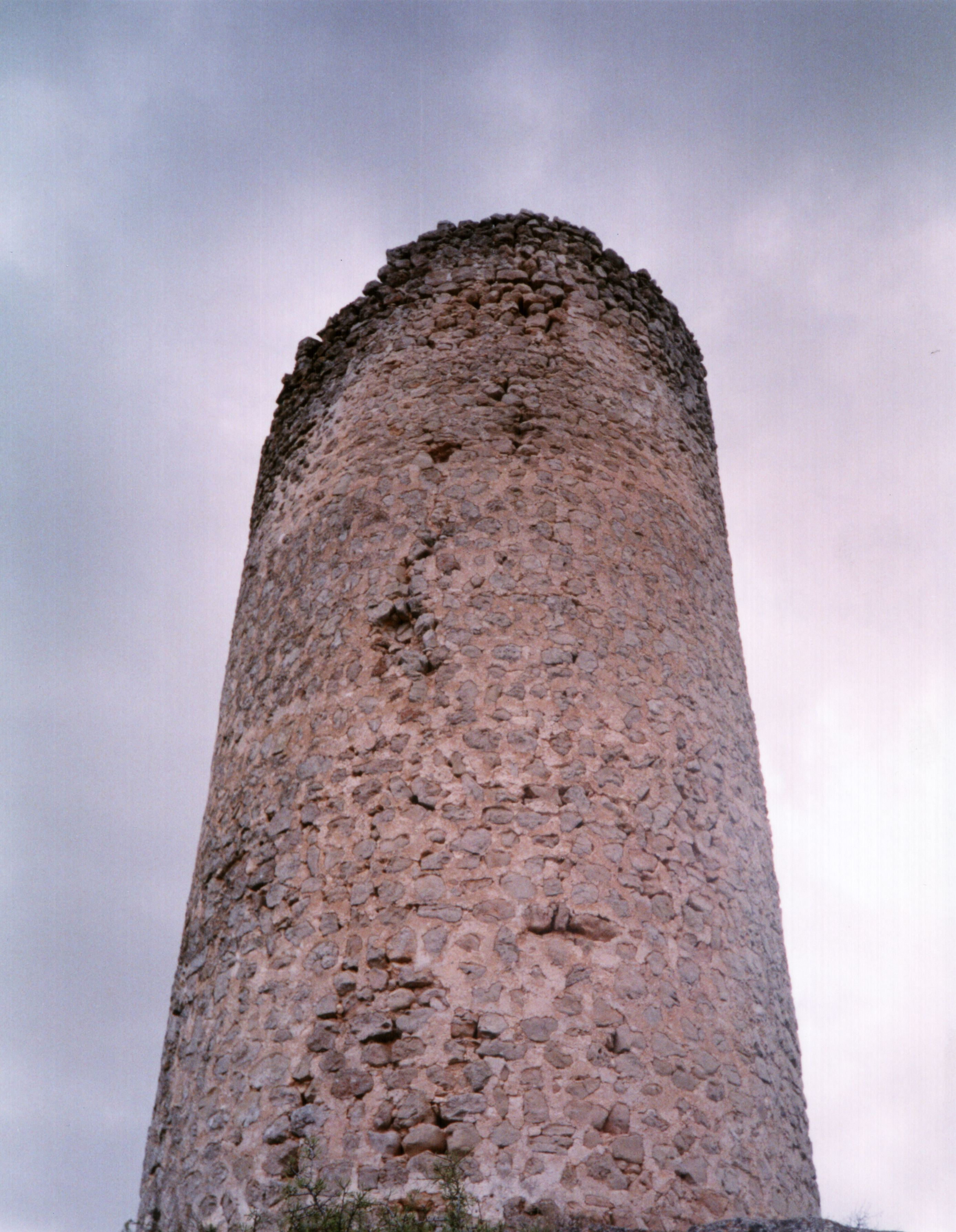 Islamic watchtower of Arrebatacapas, Torrelaguna, Madrid (Spain).